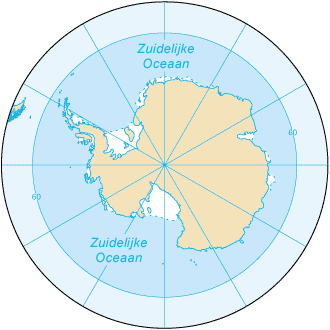 Map of Antarctica and the Southern Ocean.